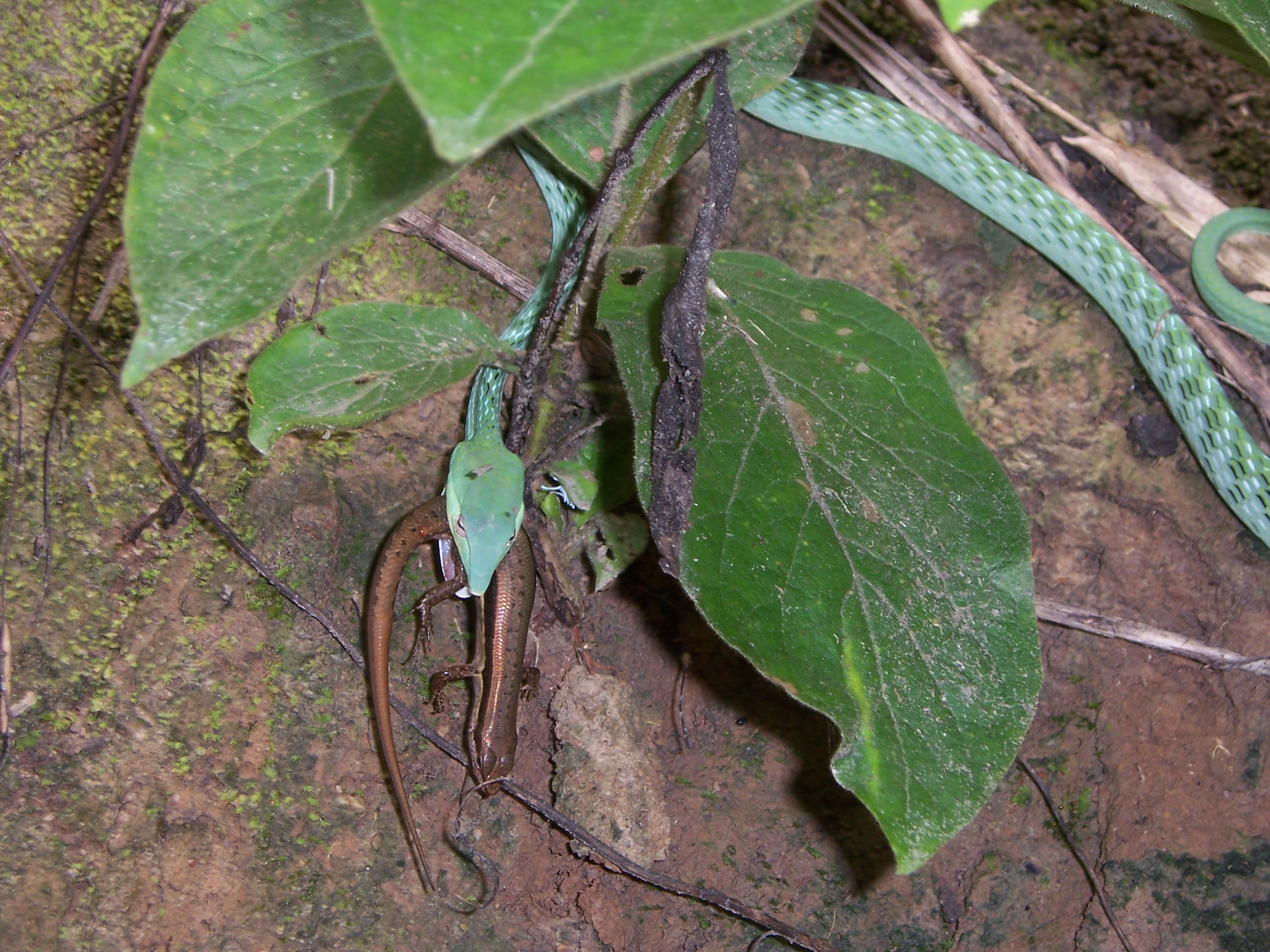 a snake eating a lizard! photographed in north Thailand near Chiang Mai!